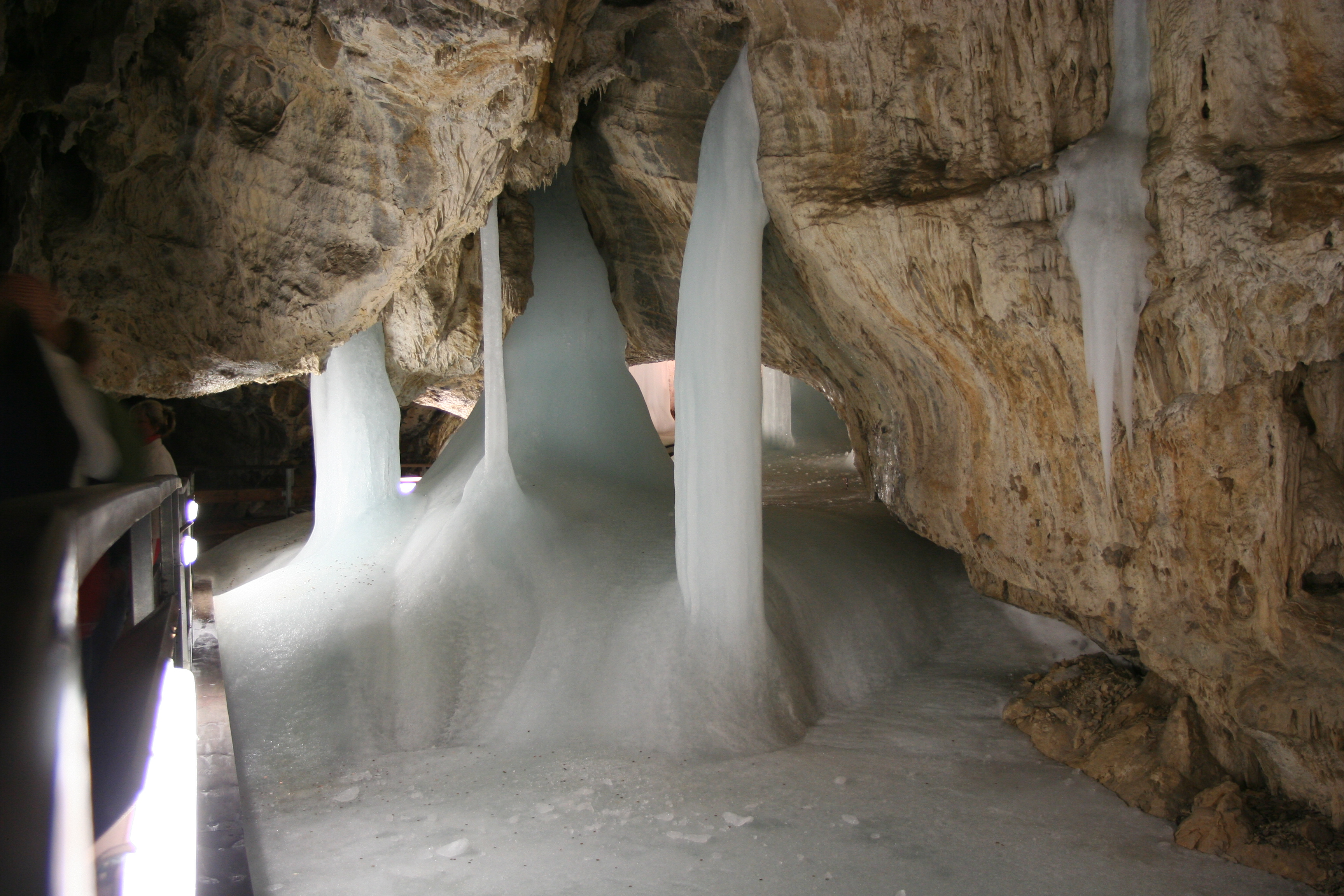 Demänová Ice Cave (Demänovská ľadová jaskyňa), Slovakia. Taking this photo was made possible through the financial support of Wikimedia Polska.